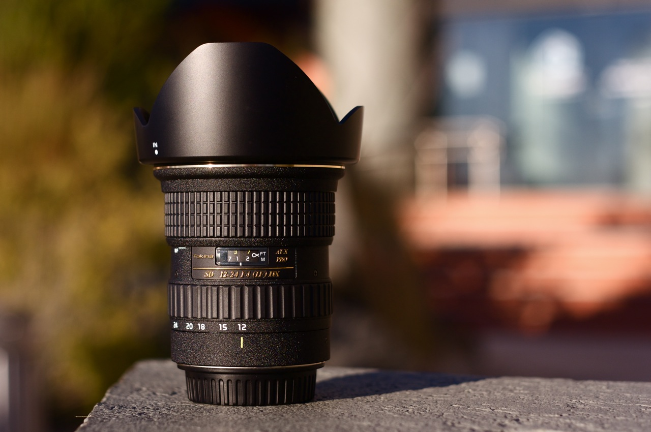 Tokina AT-X124 PRO DX, 12-24mm F4 Aspherical Lens, for Canon EF Mount.